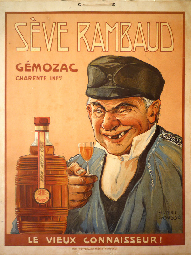 affiche Sève Rambaud by Henri Goussé (1872-1914)